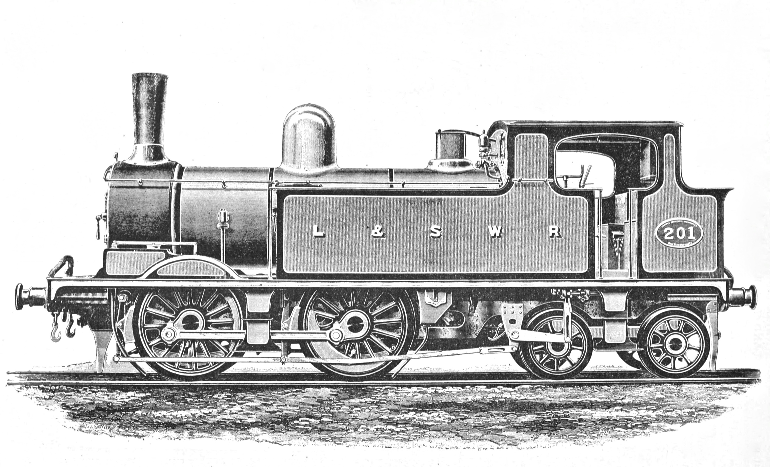 London & Southwestern Railway O2 Class 0-4-4T four-wheeled coupled tank locomotive no 201 in side-view, before 1894 Image is a scan of: Anonymous: “FOUR-WHEELED COUPLED TANK LOCOMOTIVE ON THE LONDON & SOUTHWESTERN RAILWAY.” Photographic plate in American Engineer and Railroad Journal, vol. LXVIII, no. 6, August 1894, New York, p. 348. Digitizer: The Internet Archive, 2009 Text Appearing After Image: FOUR-WHEELED COUPLED TANK LOCOMOTIVE ON THE LONDON & SOUTHWESTERN RAILWAY Vol. LXVIII, No. 8] And Railroad Journal. 349 [...] Four-Wheeled Coupled Tank Locomotive on the London & Southwestern Railway. — In our issue for April we published drawings and a description of a four-wheeled bogie tank locomotive that is used on the London & Southwestern Railway, which was designed by Mr. W. Adams, Locomotive Superintendent. On another page we publish a full-page engraving giving the side view of this engine, for which engraving we are indebted to the Engineer of London. This engraving gives a very good idea of the appearance of the engine on the road, and, coupled with our description as published in April, is sufficient to enable an engineer to reproduce the engine if he should so desire. We wish, however, to call particular attention to the broad and safe steps which are used and which characterize English locomotive practice in general, and also the arrangement of the driver brakes, in which there is no apparent compensation for variation in the wear of the shoes, in which all are brought to bearing before the breaking resistance really begins.